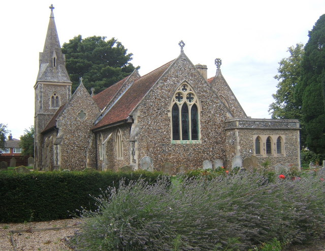 SS Mary and Botolph parish church, Whitton, Ipswich, Suffolk, seen from the southeast